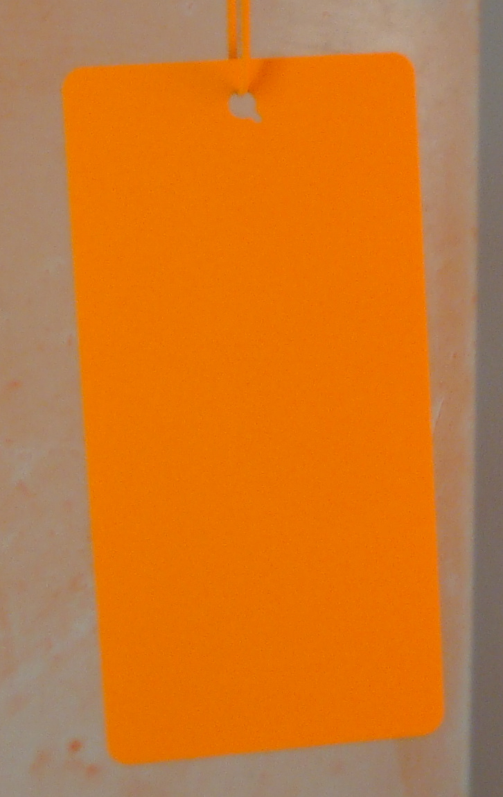 Applicated powder coating